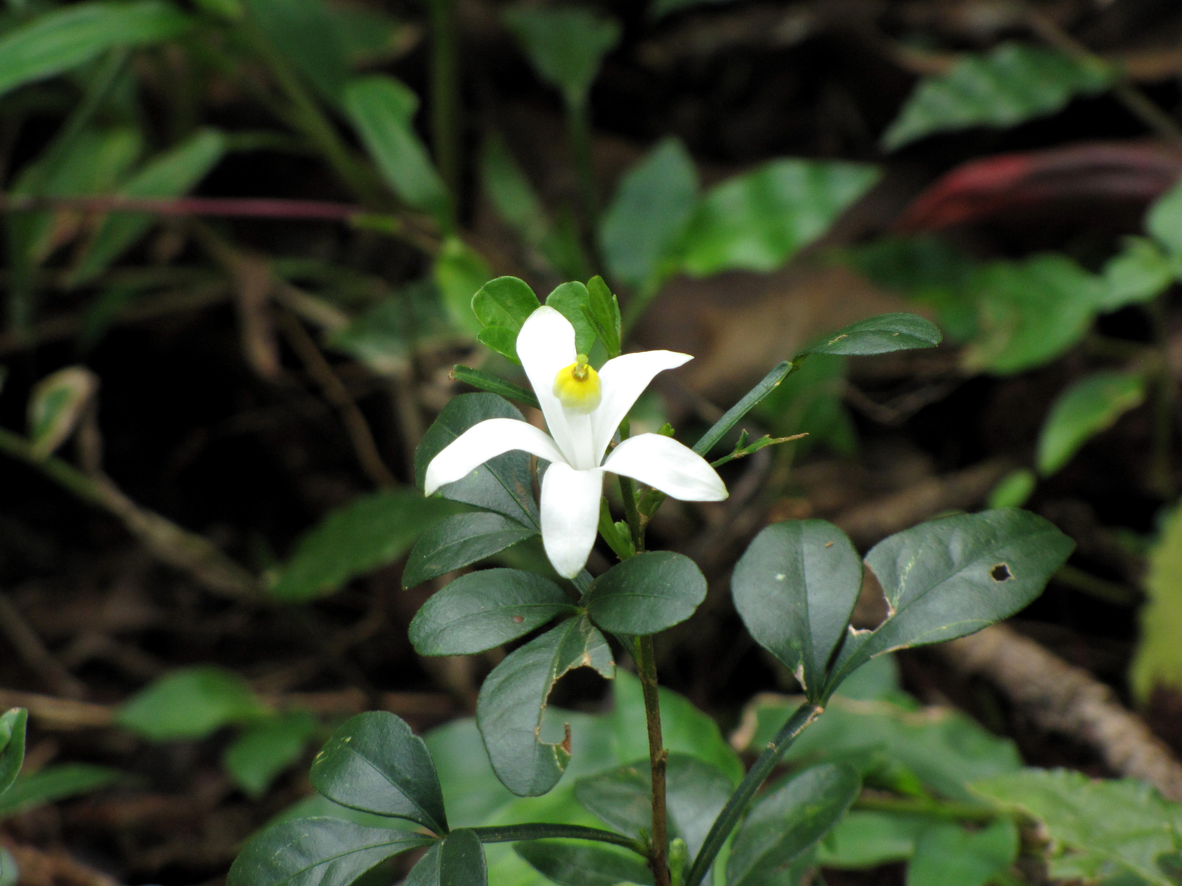 Naregamia alata from Koovery